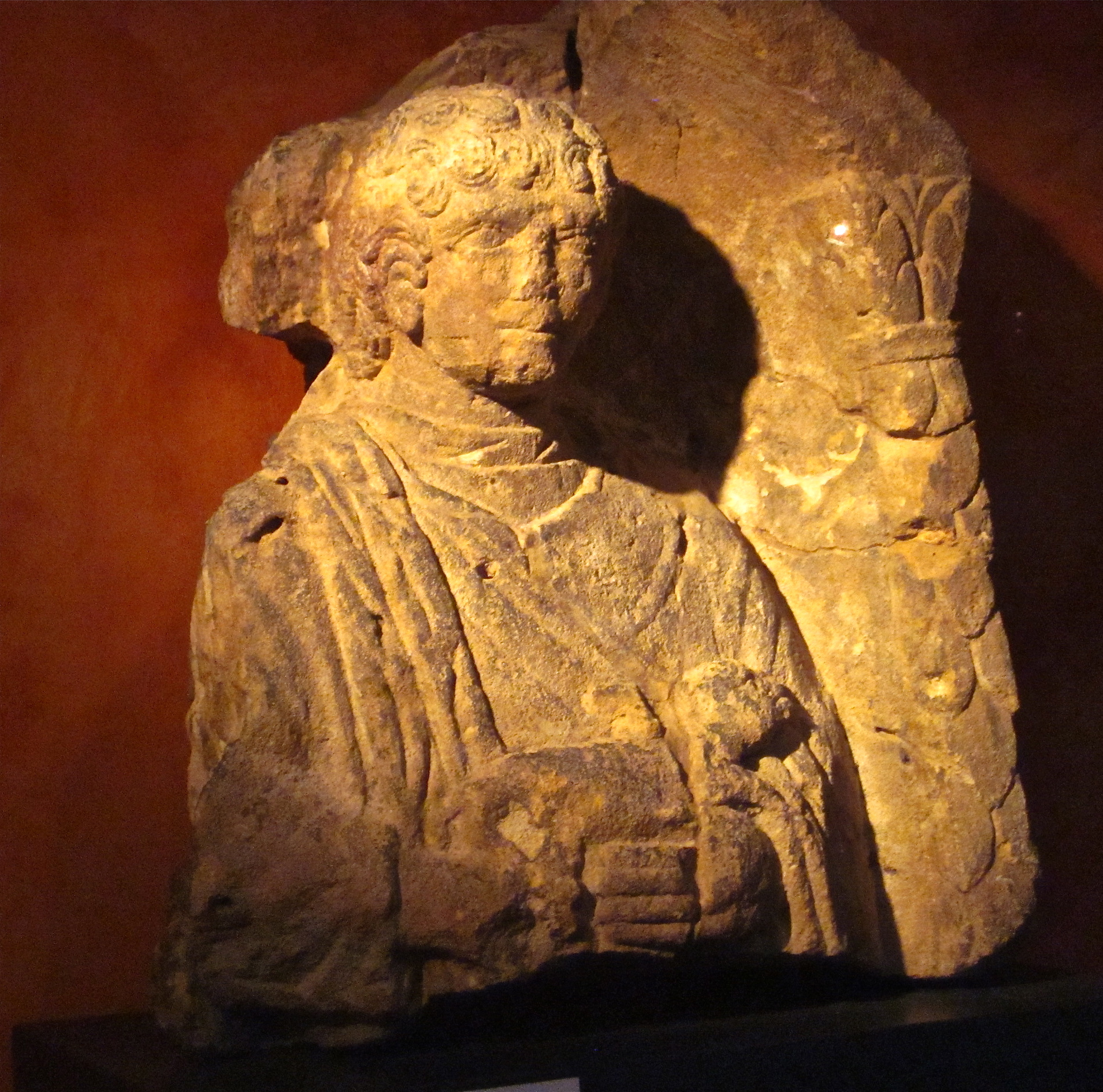 Tombstone of a youth holding a hare. St Swithin's, Lincoln